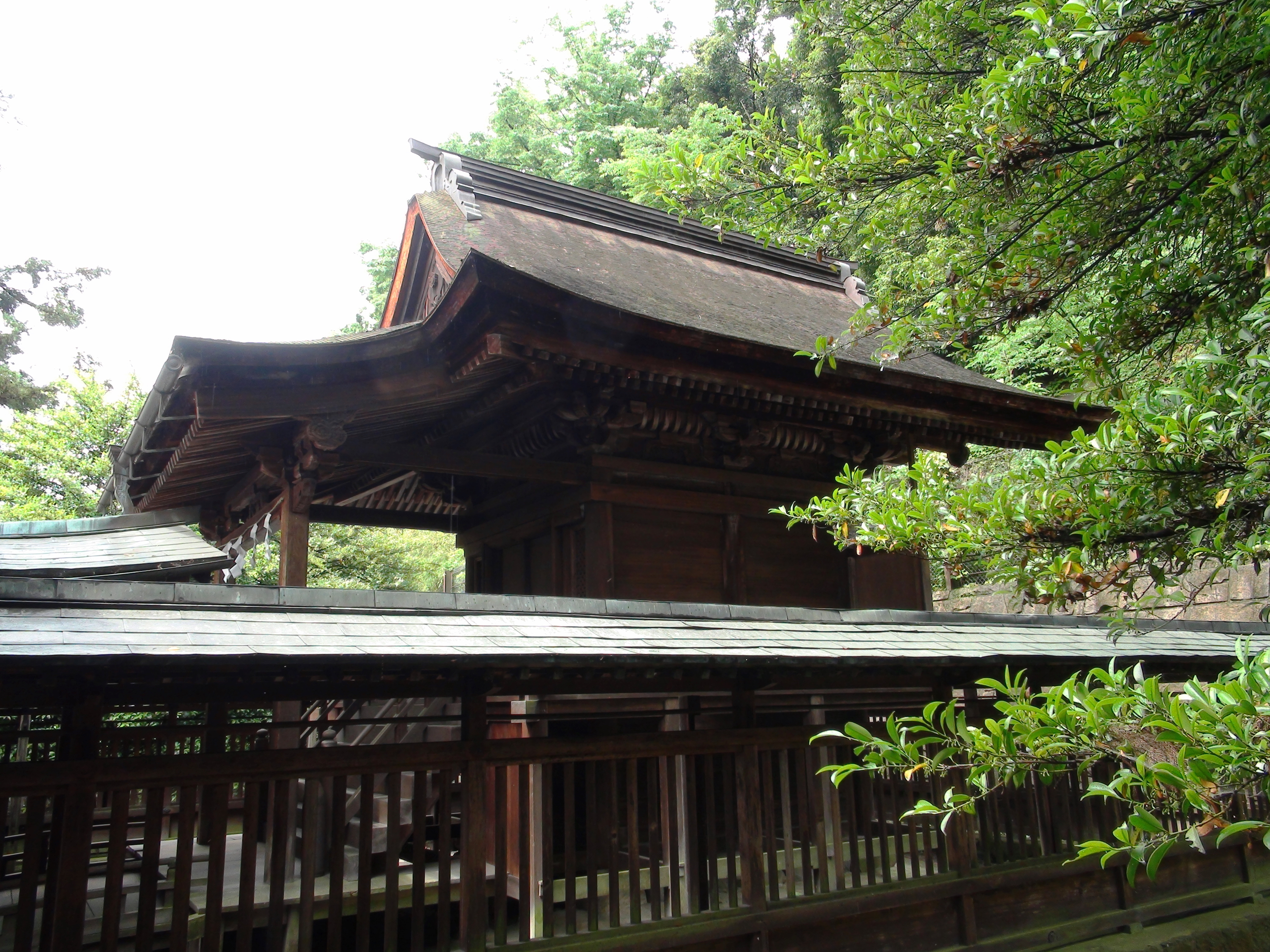 The main shrine cultural assets building of the Yamanashi-oka shrine